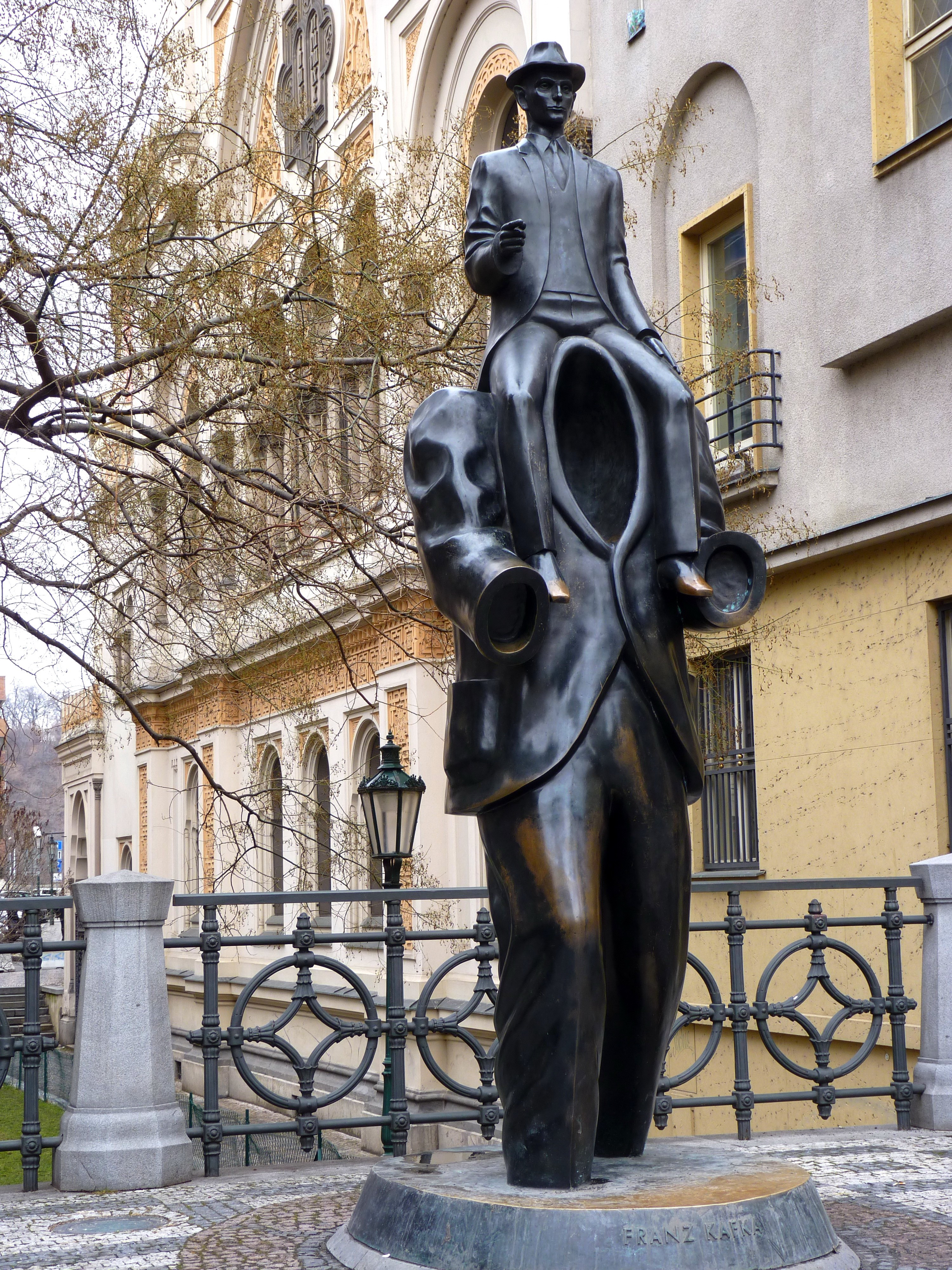 Franz Kafka's sculpture in Prague.